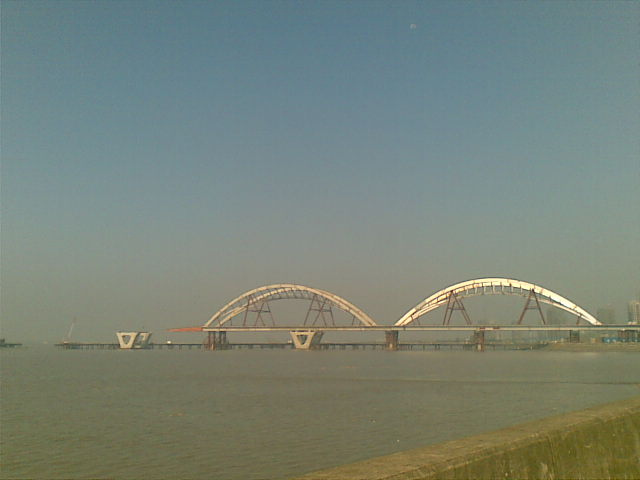 The Jiubao Bridge over the Qiantangjiang in Hangzhou, Zhejiang, China